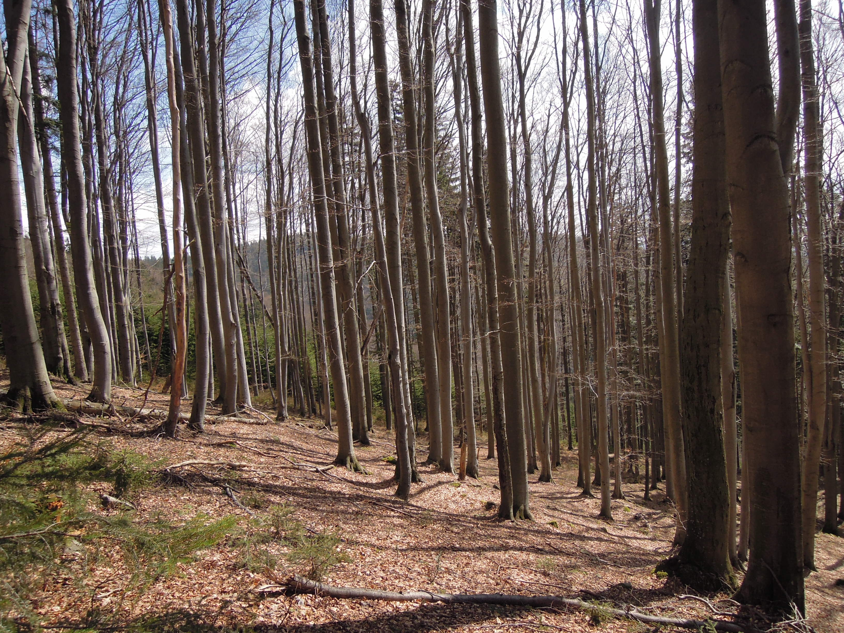 Skálí natural monument in Karolinka, Vsetín District, Zlín Region, Czech Republic